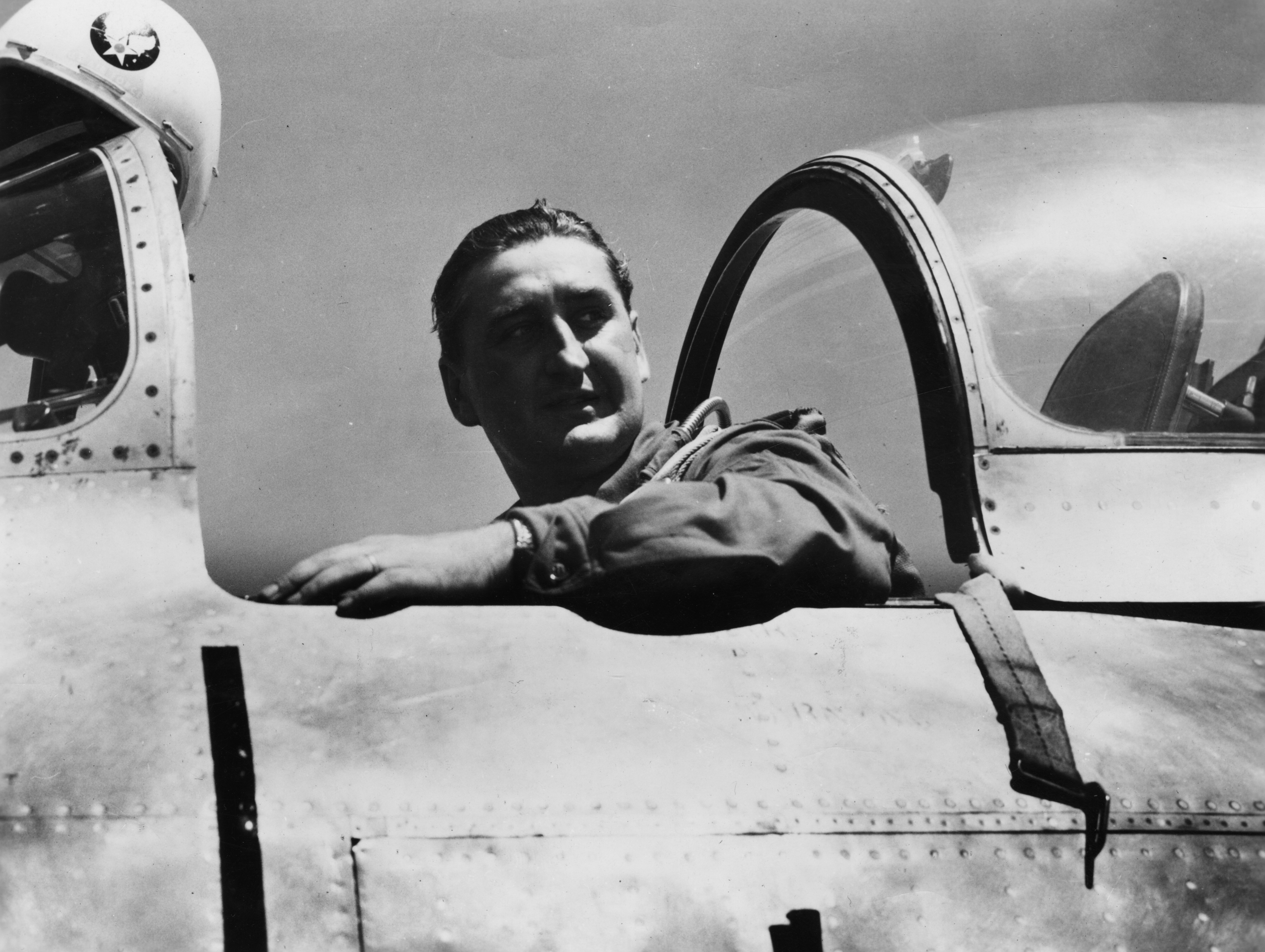 FIFTH AIR FORCE KOREA- Col Francis S Gabreski, Oil City, Pa, noted "Ace" of World War II, is back in action against enemy aircraft and he apparently lost none of his skill in shooting down hostile fighters. Assigned to the veteran "MIG Killing" 4th Fighter Interceptor Wing, Col Gabreski is shown in the cockpit of his US Air Force F-86 Sabre jet after returning victoriously from combat. He scored his first aerial victory over Northwest Korea July 8 1952, when he sent one MIG-15 spinning earthward in flames, April 1952